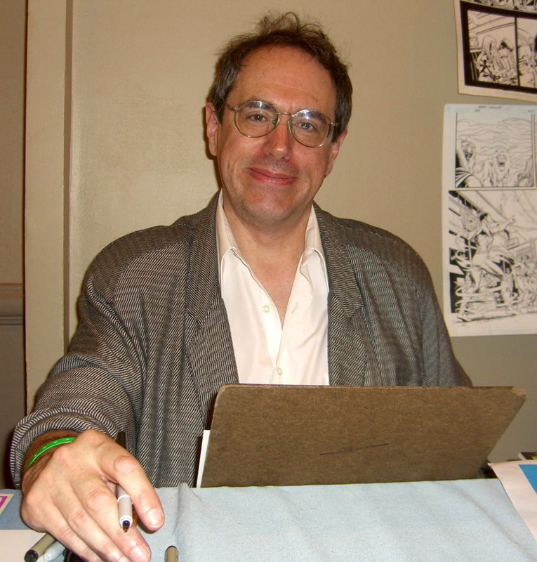 Comic book creator Bob Wiacek at the Big Apple Summer Sizzler in Manhattan, June 13, 2009. Photographed by Luigi Novi. This photo is not in the public domain. It may, however, be used, modified and published for any purpose, only if an easily visible credit to the photographer is placed near the photo in each instance in which it is used. (See licensing information below.) Publication of this photo without this proper attribution constitutes copyright infringement. For more information on my photos, you can contact me here.